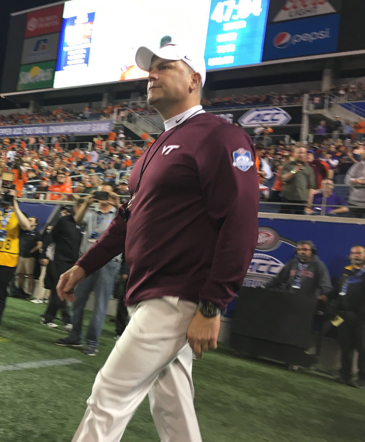 Virginia Tech Head Coach Justin Fuente prior to the 2016 ACC Championship Game in Orlando, Florida.